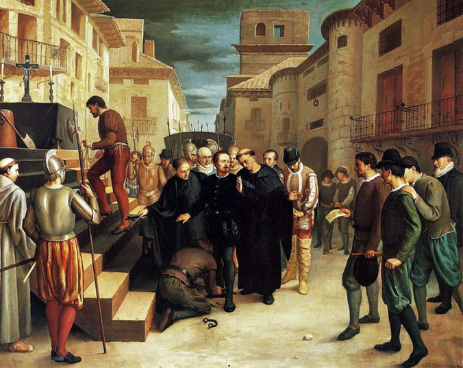 The painting represents the last days of the Chusticia of Aragon Juan de Lanuza y Urrea (1564-1591), who he was beheaded in Zaragoza in 1591 by King Philip II of Spain. At behind is the gate Puerta de Toledo (Zaragoza).